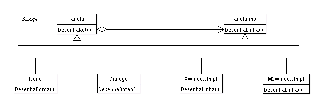 Description: Bridge Design Pattern Date: 12/05/2005 Author: Luís Felipe Braga